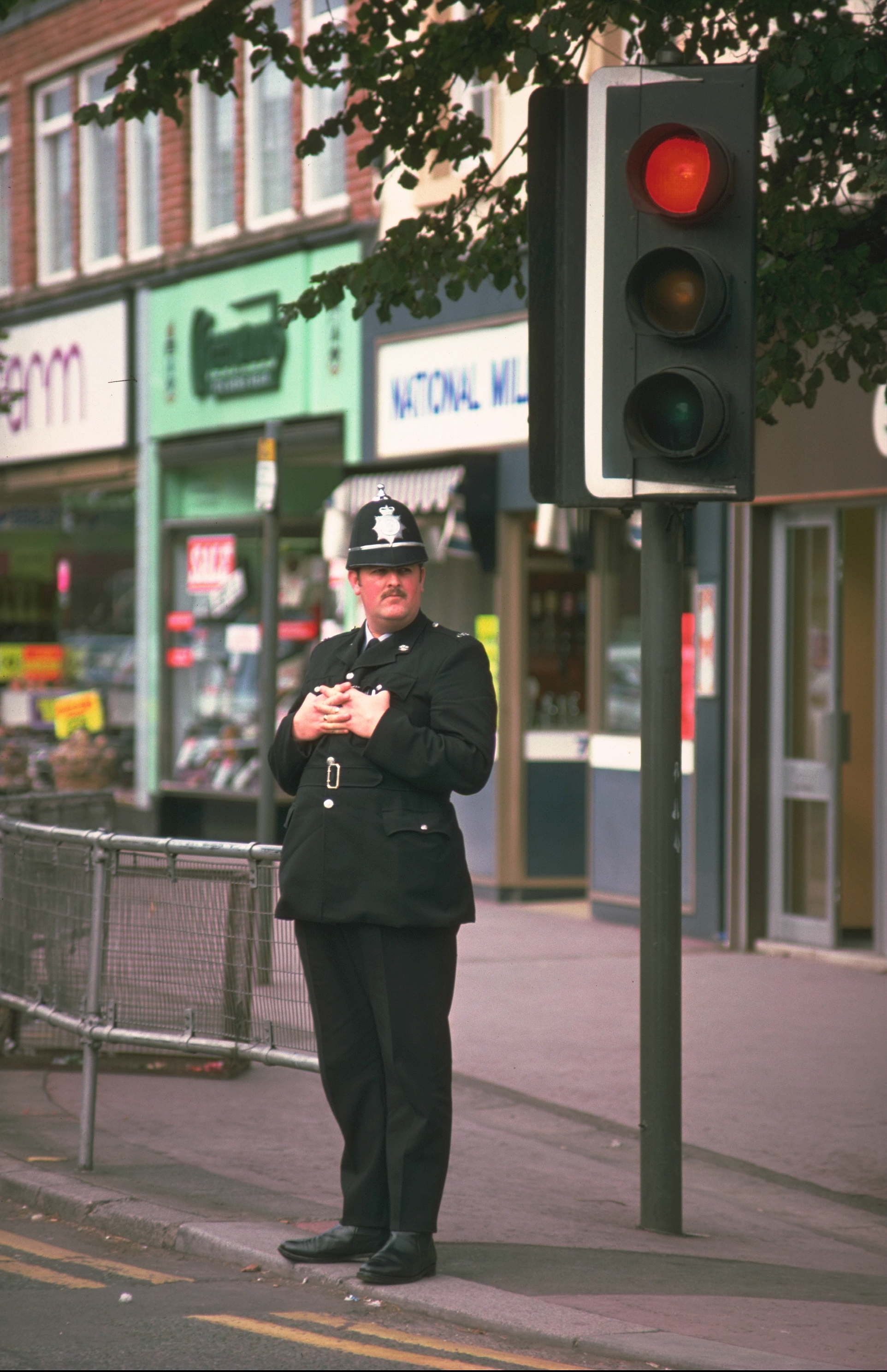 Policeman and Traffic Lights, seen in Mold/ Wales